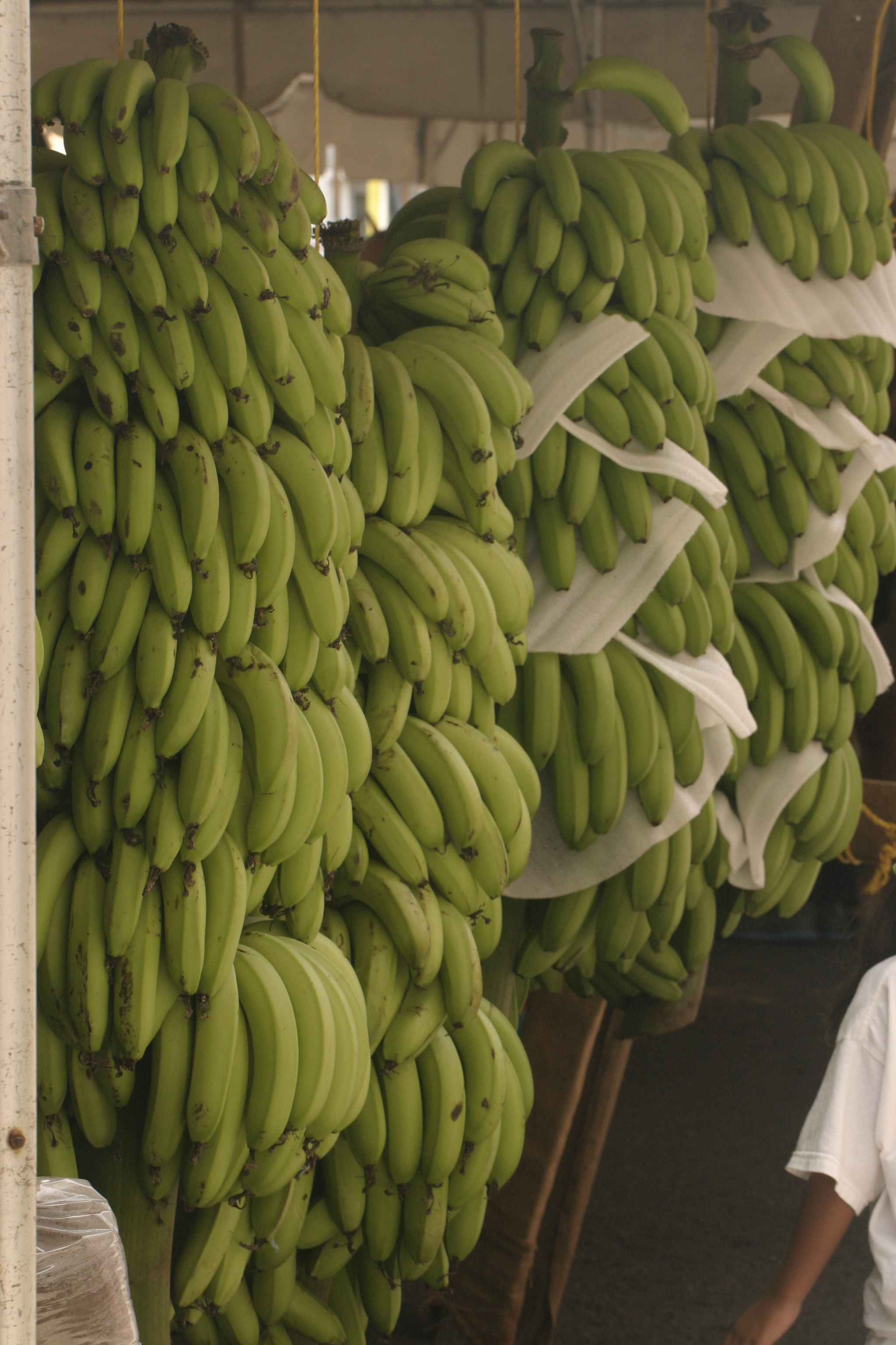 Mega racimos de guineos